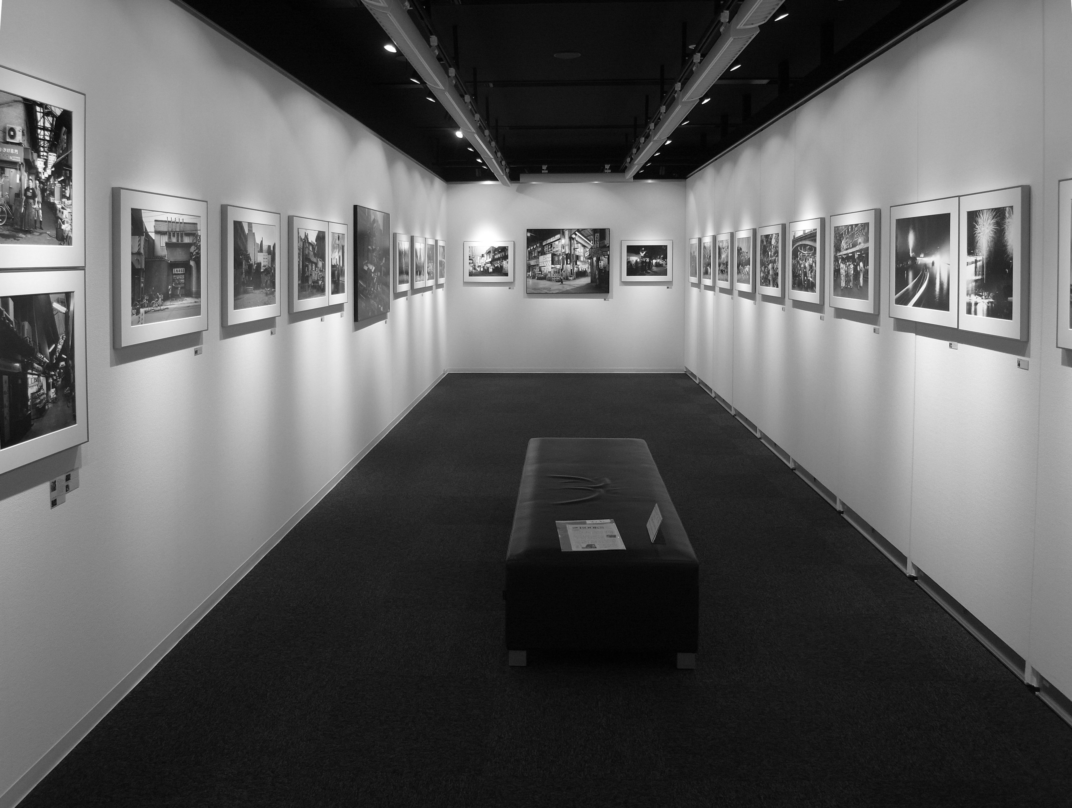 Exhibition of "Osaka", by Shunji Dodo, in Osaka Nikon Salon